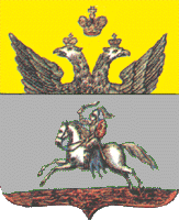 Coat of arms Polotsk Governorate, Russian Empire